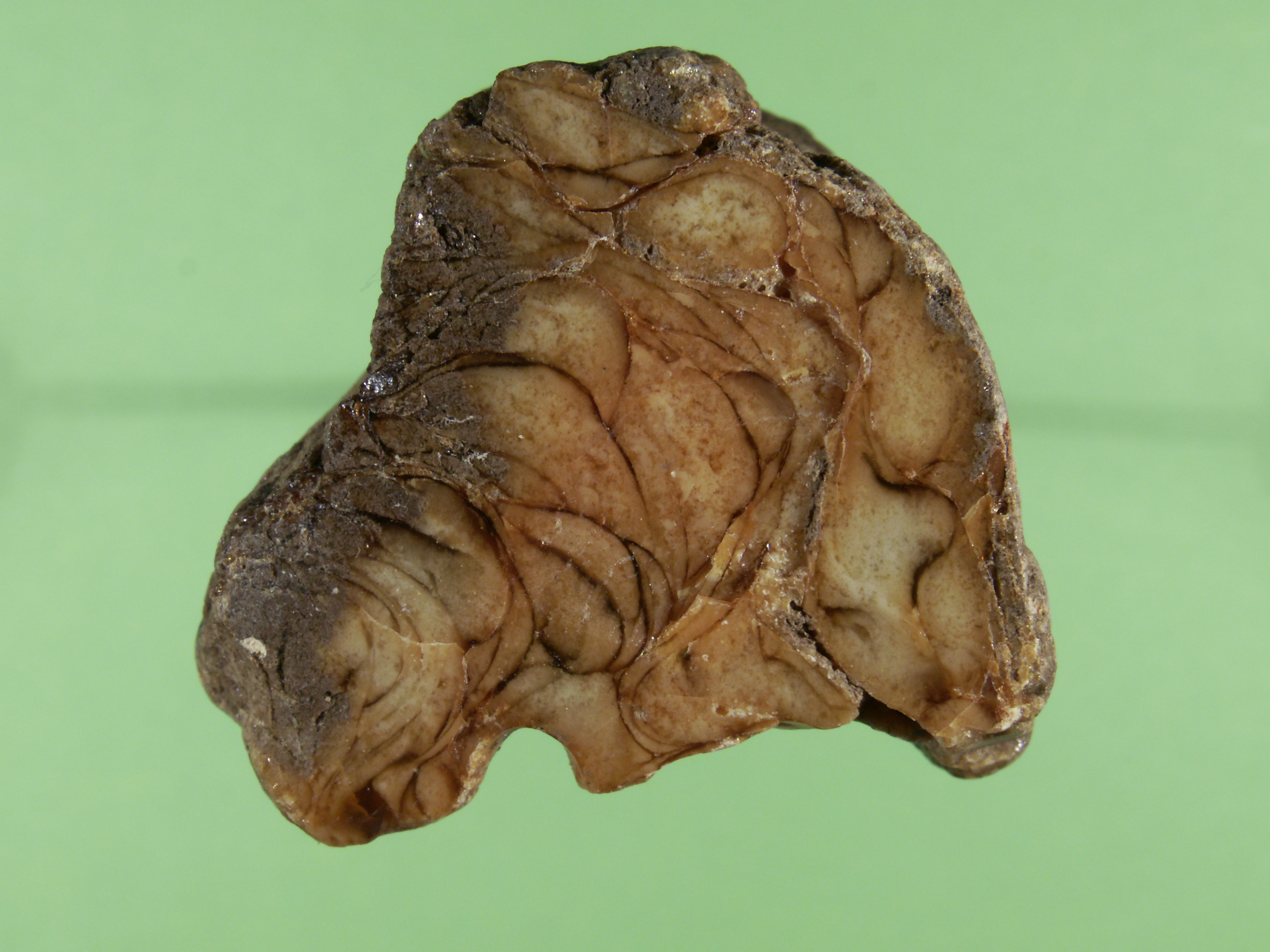 Amber from Bitterfeld, bitterfeldite